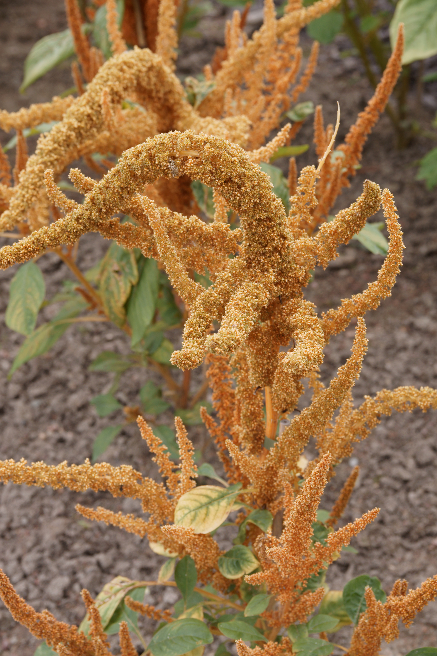 Amaranthus cruentus.